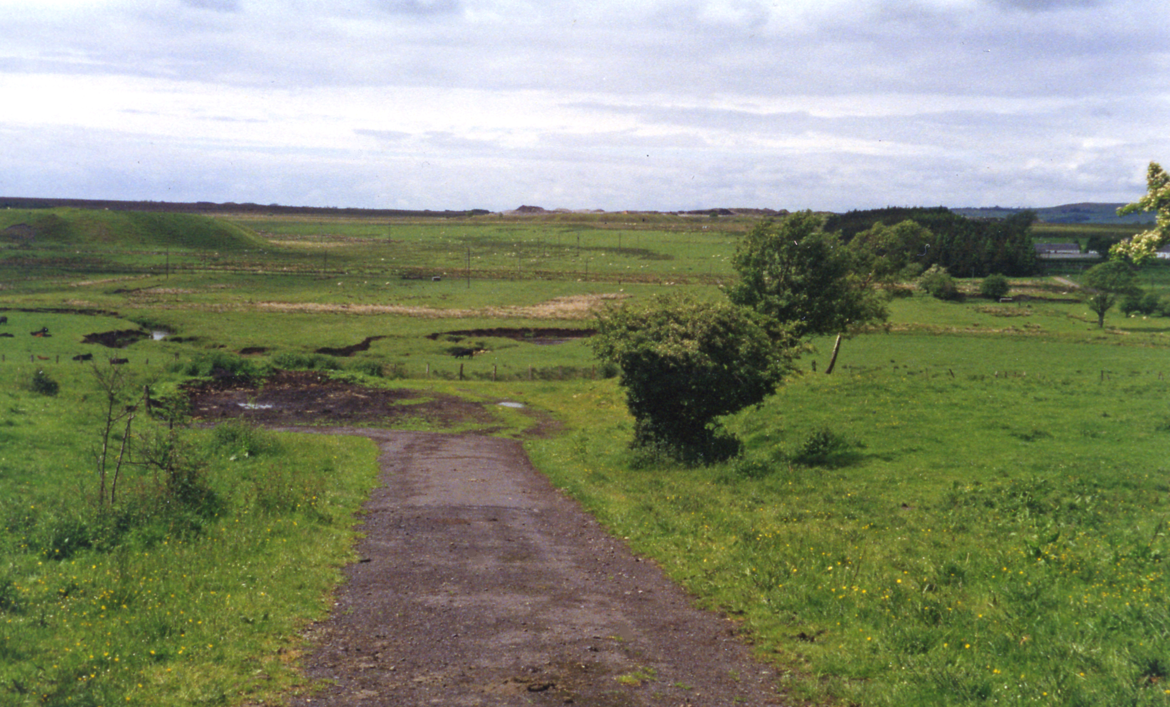 Site of Cronberry station. View NW from A70 road: ex-Glasgow & South Western junction of lines, via Auchinleck to left from Ayr and Kilmarnock via Mauchline and from Ayr via Drongan, to Muirkirk to right. The station closed to passengers on 10/9/51, to goods on 2/3/64. The passenger service from Auchinleck ceased from 1/7/50, so all lines were probably closed after 2/3/64